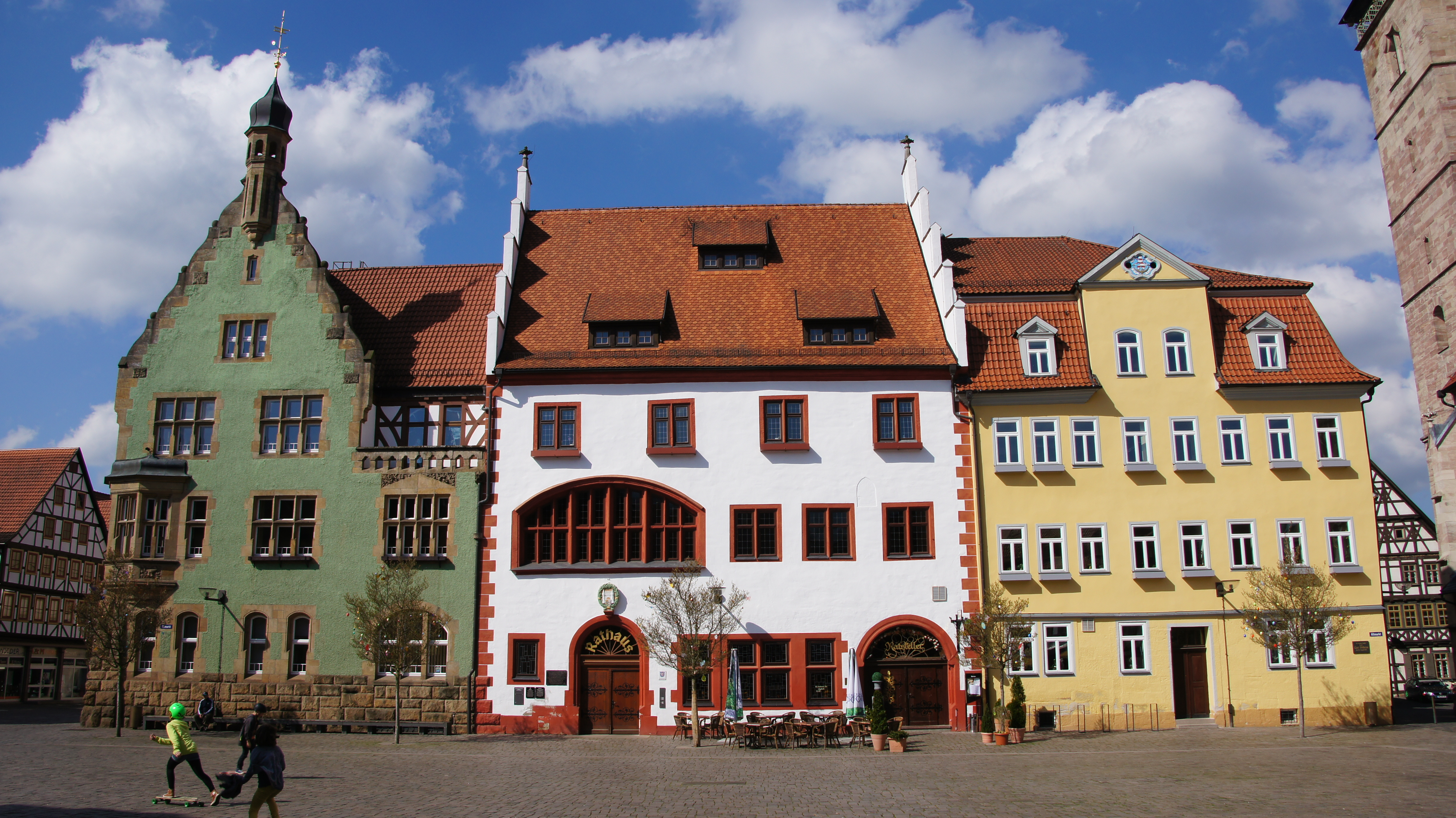 Town hall of Schmalkalden - Altmarkt, Schmalkalden, Thuringia, Germany